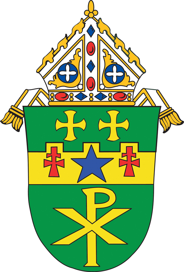 Crest of the Diocese of Greensburg, Greensburg PA